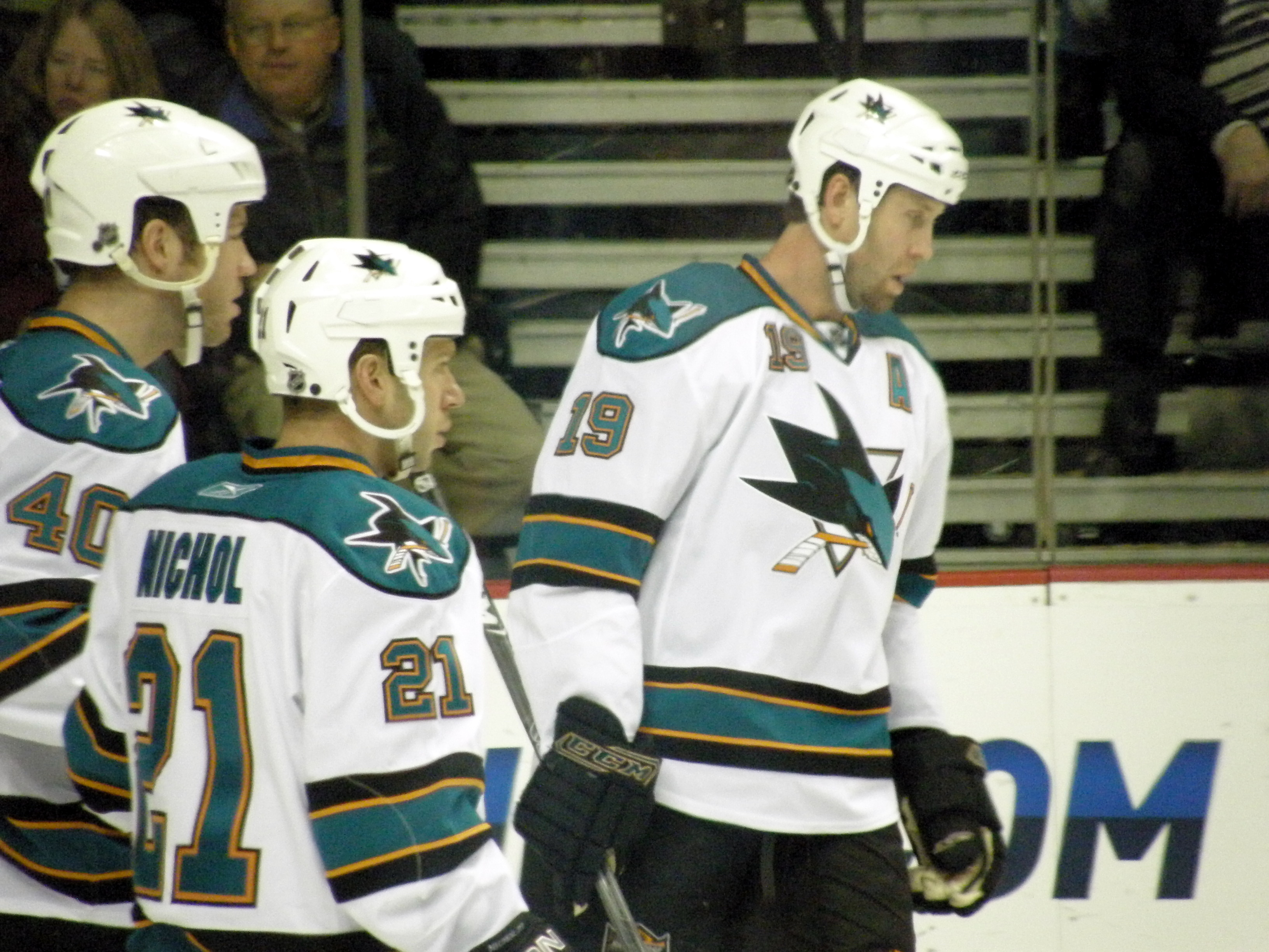 40, Kent Huskins, D; 21, Scott Nichol, C; 19, Joe Thornton, C -- SJS San Jose Sharks at Nashville Predators, February 6, 2010